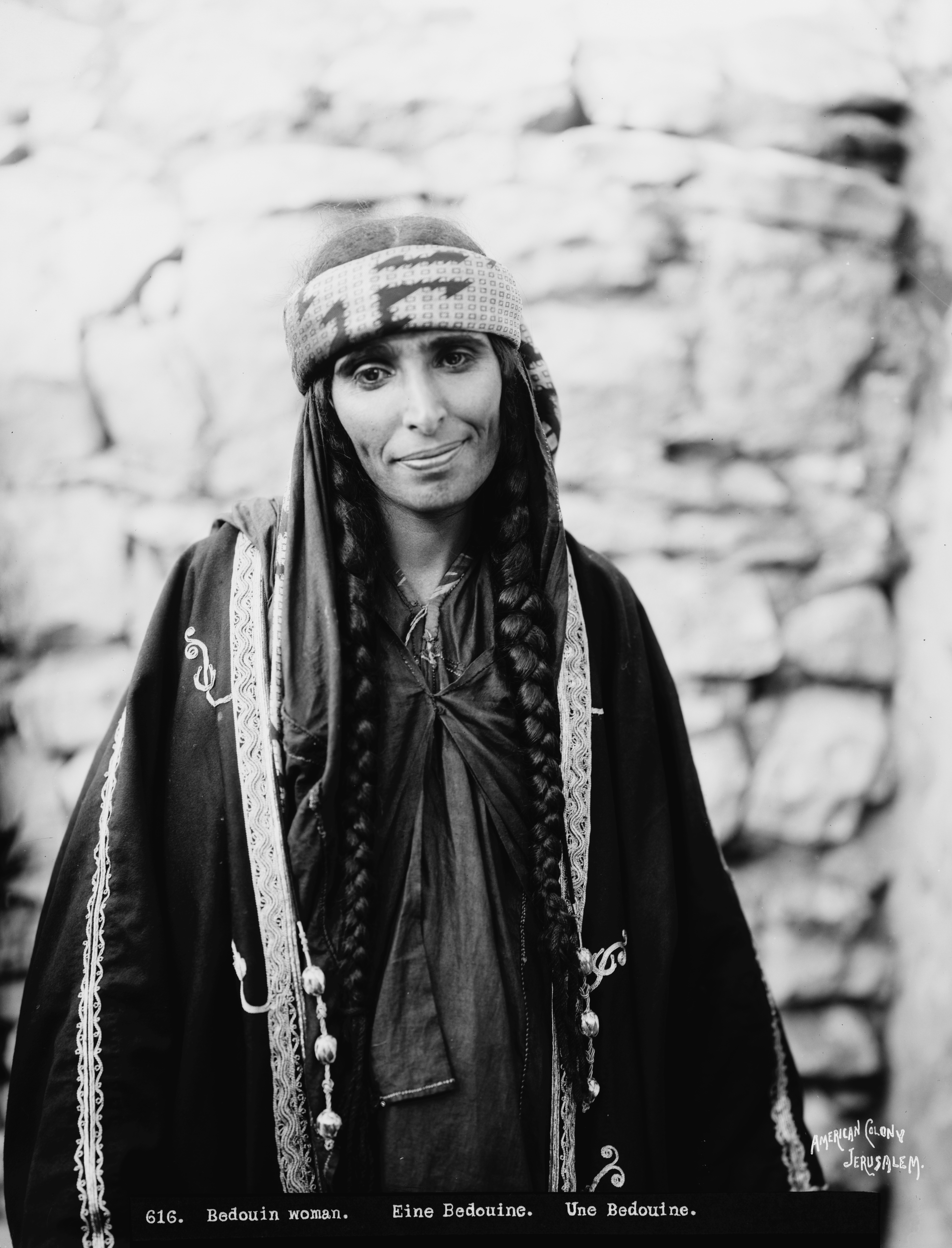 Bedouin woman in Jerusalem.